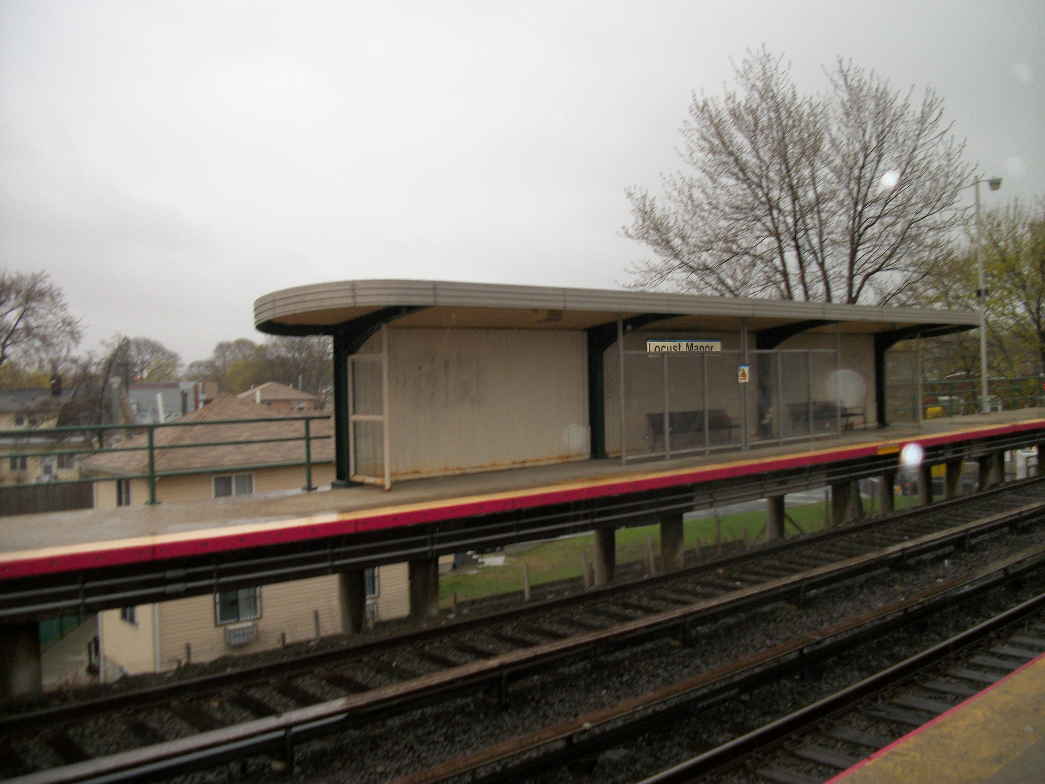 Image of one of the 1950's-style shelters of Locust Manor (LIRR station) in the Locust Manor section of Queens, New York City. I have five images of this station, hence the "1" in the title of this pic.